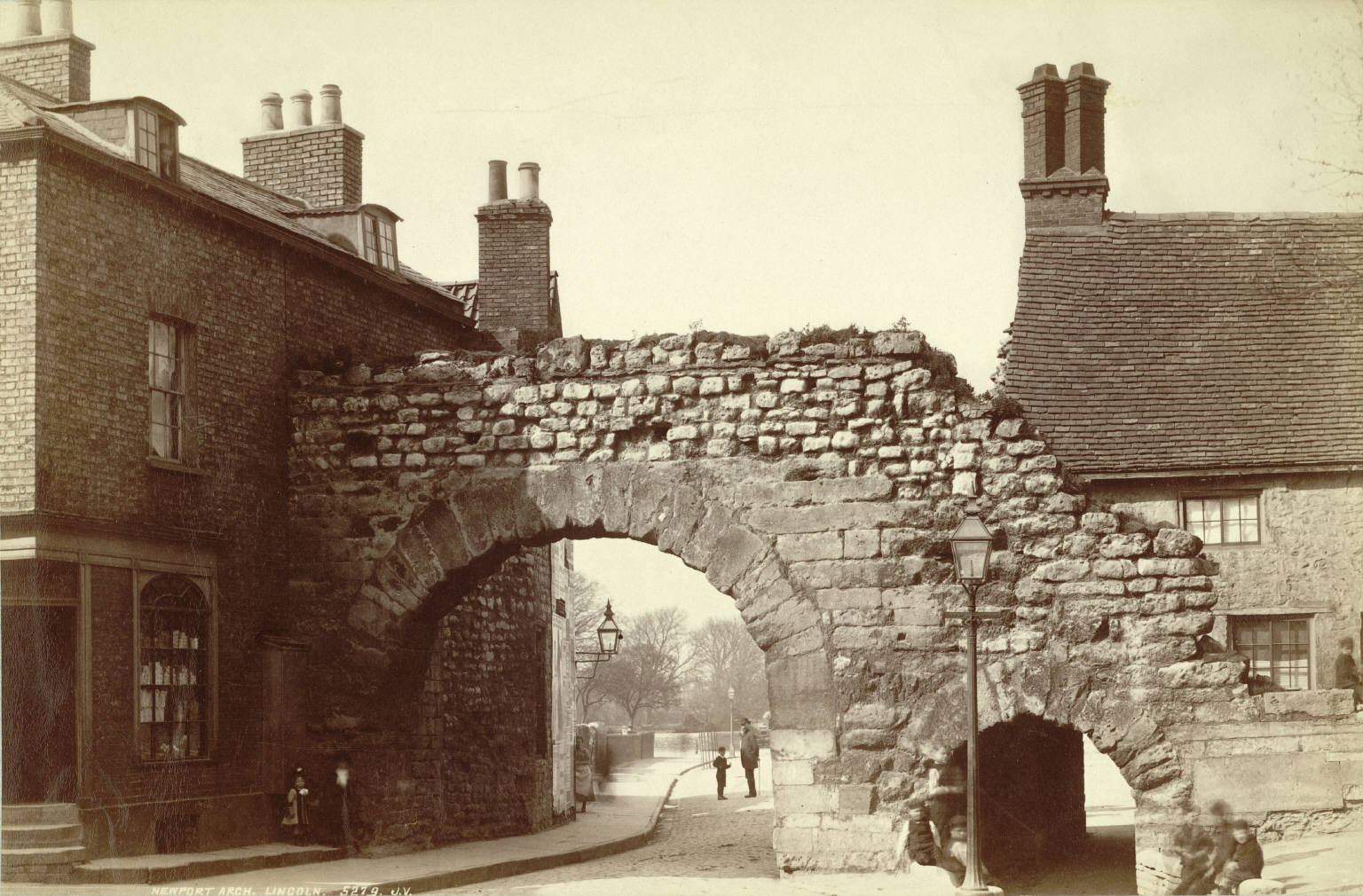 Collection: A. D. White Architectural Photographs, Cornell University Library Accession Number: 15/5/3090.01160 Title: Lincoln. The Newport Arch Photographer: James Valentine (Scottish, 1815-1880) Photograph date: ca. 1865-ca. 1880 Building Date: ca. 200-ca. 299 Location: Europe: United Kingdom; Lincoln Materials: albumen print Image: 7 1/2 x 11 3/8 in.; 19.05 x 28.8925 cm Style: Roman Provenance: Gift of Andrew Dickson White Persistent URI: [1] There are no known U.S. copyright restrictions on this image. The digital file is owned by the Cornell University Library which is making it freely available with the request that, when possible, the Library be credited as its source. We had some help with the geocoding from Web Services by Yahoo!